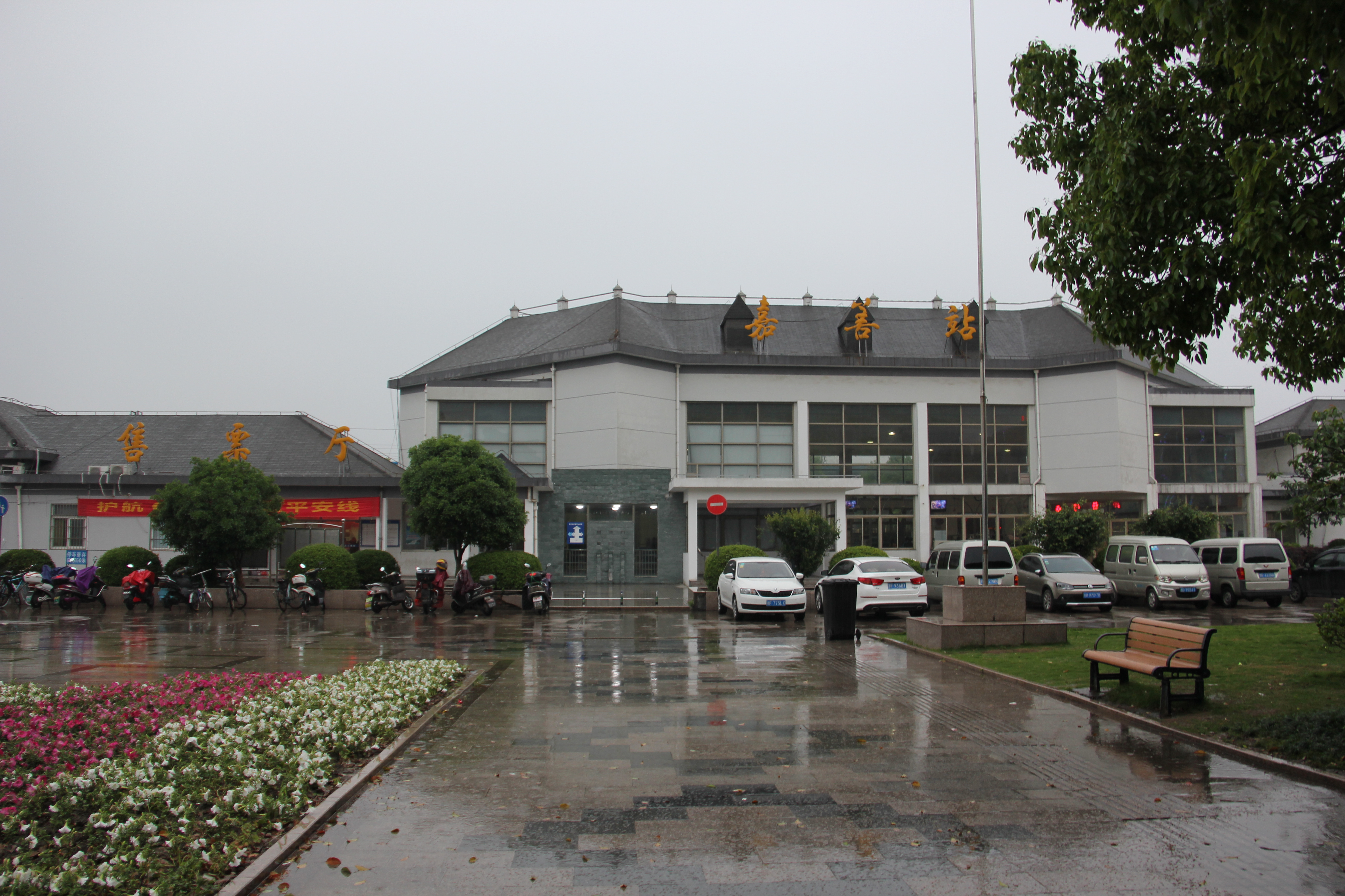 201605 Facade of Jiashan Railway Station